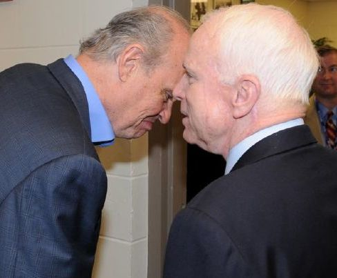 Fred and John share a private conversation